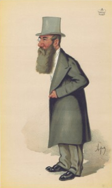 Caricature of Lord Tenterden. Caption read "The Foreign Office.